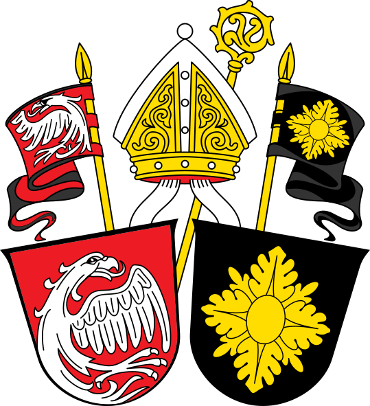 coats of arms of the imperial abbey of Ottobeuren